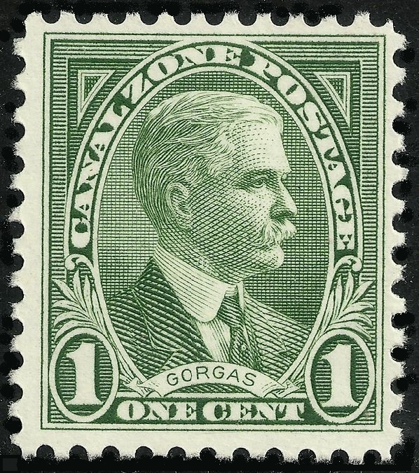 Canal Zone 1c Gorgas, 1928 Issue